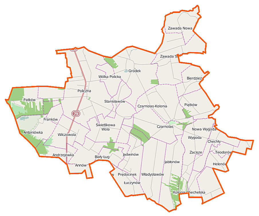 Map of Gmina Policzna, Poland This map of Policzna (gmina) was created from OpenStreetMap project data, collected by the community. This map may be incomplete, and may contain errors. Don't rely solely on it for navigation. Border coordinates51.504321.5445←↕→21.793151.3752